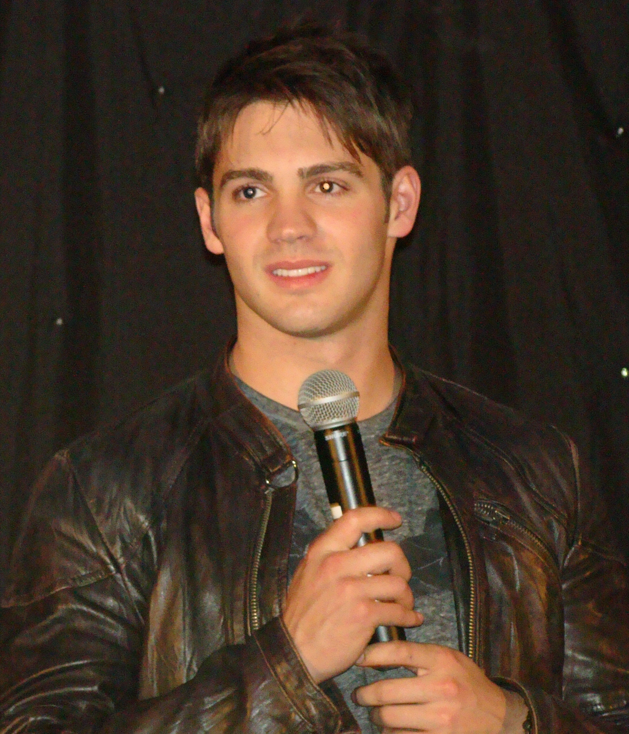 Interview with Steven R. McQueen from The Vampire Diaries in June 2012.